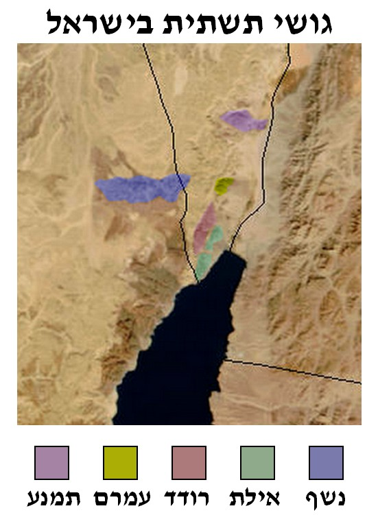 Description: This Moderate Resolution Imaging Spectroradiometer (MODIS) image from the Terra satellite shows the Mediterranean Sea (left) and portions of the Middle East. Countries pictured are (clockwise from top right) Syria, Iraq, Saudi Arabia, Egypt (across the Gulf of Aqaba), Israel, the disputed West Bank Territory, and Lebanon. In the center is Jordan. The lush, green vegetation along the Mediterranean coast and surrounding the Sea of Galilee (Lake Tiberias) in northern Israel and stands in marked contrast to the arid landscape all around. In Lebanon (and the border of Lebanon and Syria), bright white snow covers the peaks of the Jebel Liban Mountains. In the bottom right, a few scattered plots of green stand out against the orange sands of the deserts of Saudi Arabia. * Credit: Jacques Descloitres, MODIS Rapid Response Team, NASA/GSFC *